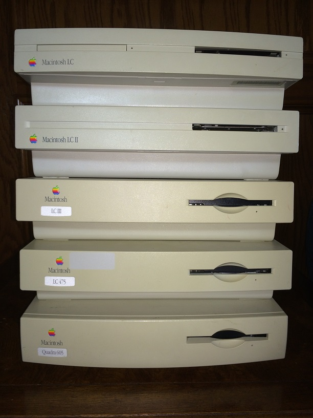 The LC family (LC, II, III, 475, Q605) front face